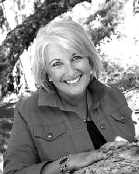 Libby Lyons, Director Workplace Gender Equality Agency